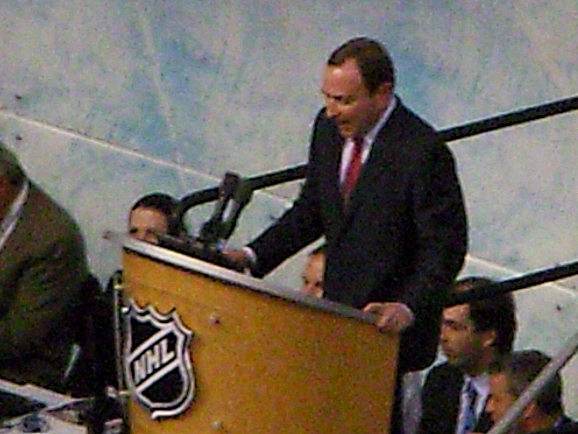 Gary Bettman as master of ceremonies at 2008 Entry Draft in Ottawa, Canada.